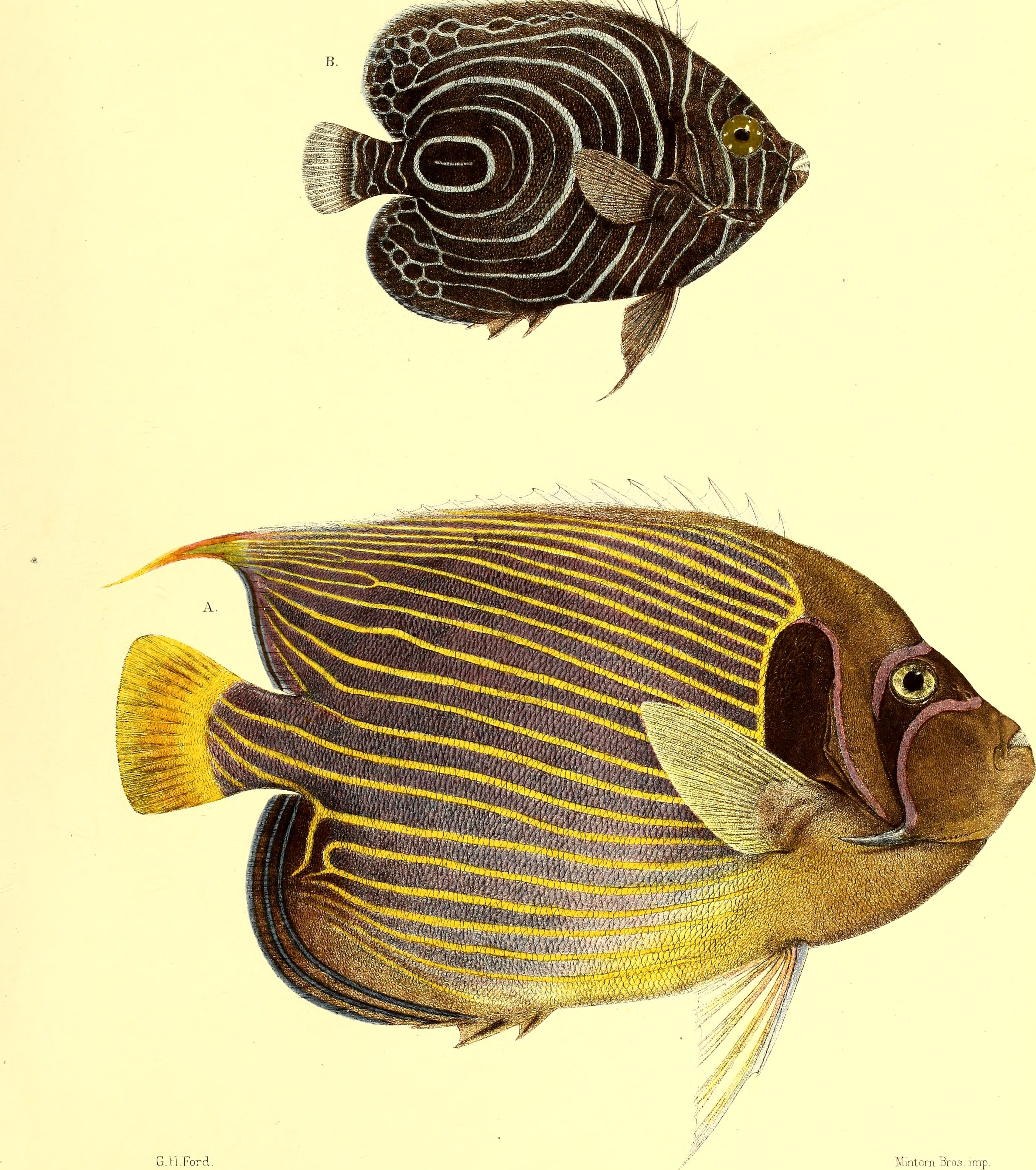 Lower: Holacanthus imperator, Upper: Holacanthus nicobariensis (=Both Pomacanthus imperator Lower is adult, upper is juvenile) Title: Andrew Garrett's Fische der Südsee Year: 1873 (1870s) Authors: Garrett, Andrew; Günther, Albert C. L. G. (Albert Carl Ludwig Gotthilf), 1830-1914; Ford, G. H. (George Henry), 1809-1876, ill; Library of Congress, former owner. DSI Subjects: Fishes; Fishes; Natural history Publisher: Hamburg : L. Friederichsen & Co. Text Appearing Before Image: ■Journal des Museum Godeffroy Hett.VlI Fische der Sudsee. Heft, 111.Taf. 41 Text Appearing After Image: A. Holacanthus imperator. B. Holacantbis nicobanensis.